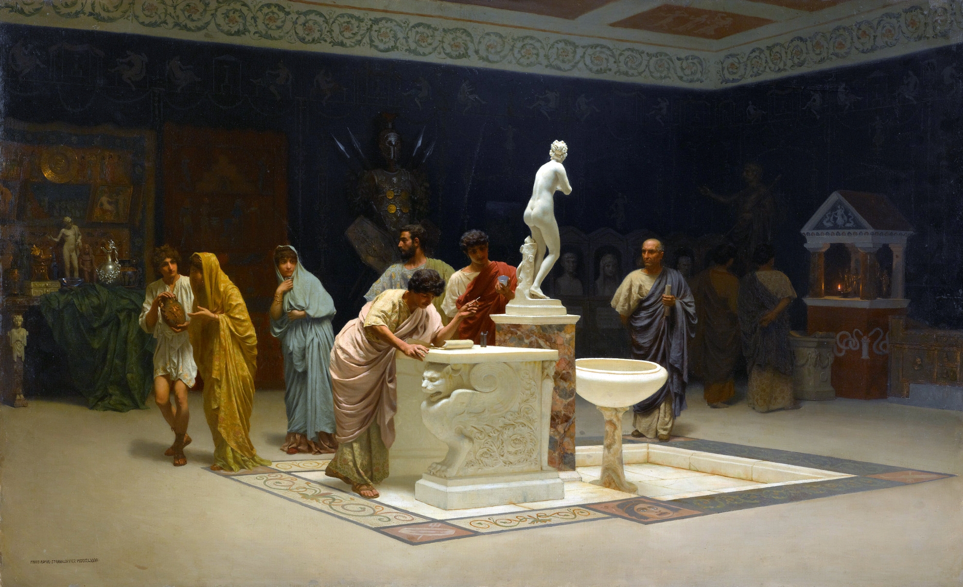 At Maecenas' reception room. 1890. A repeat of the 1887 painting (Pavlovsk Museum)